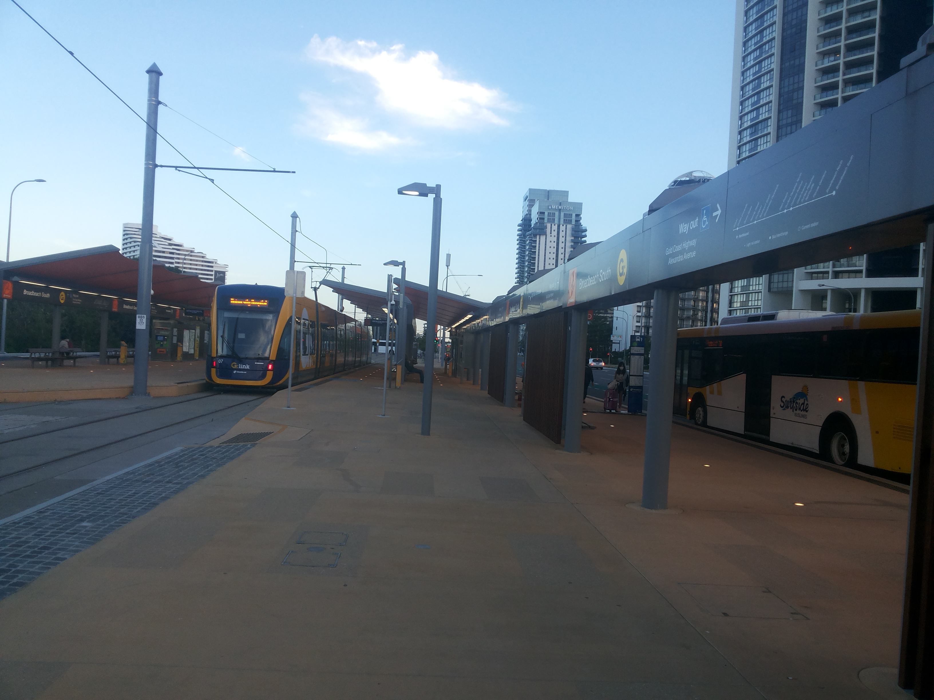 Broadbeach South Station tram and bus interchange on the Gold Coast. (March 2015)